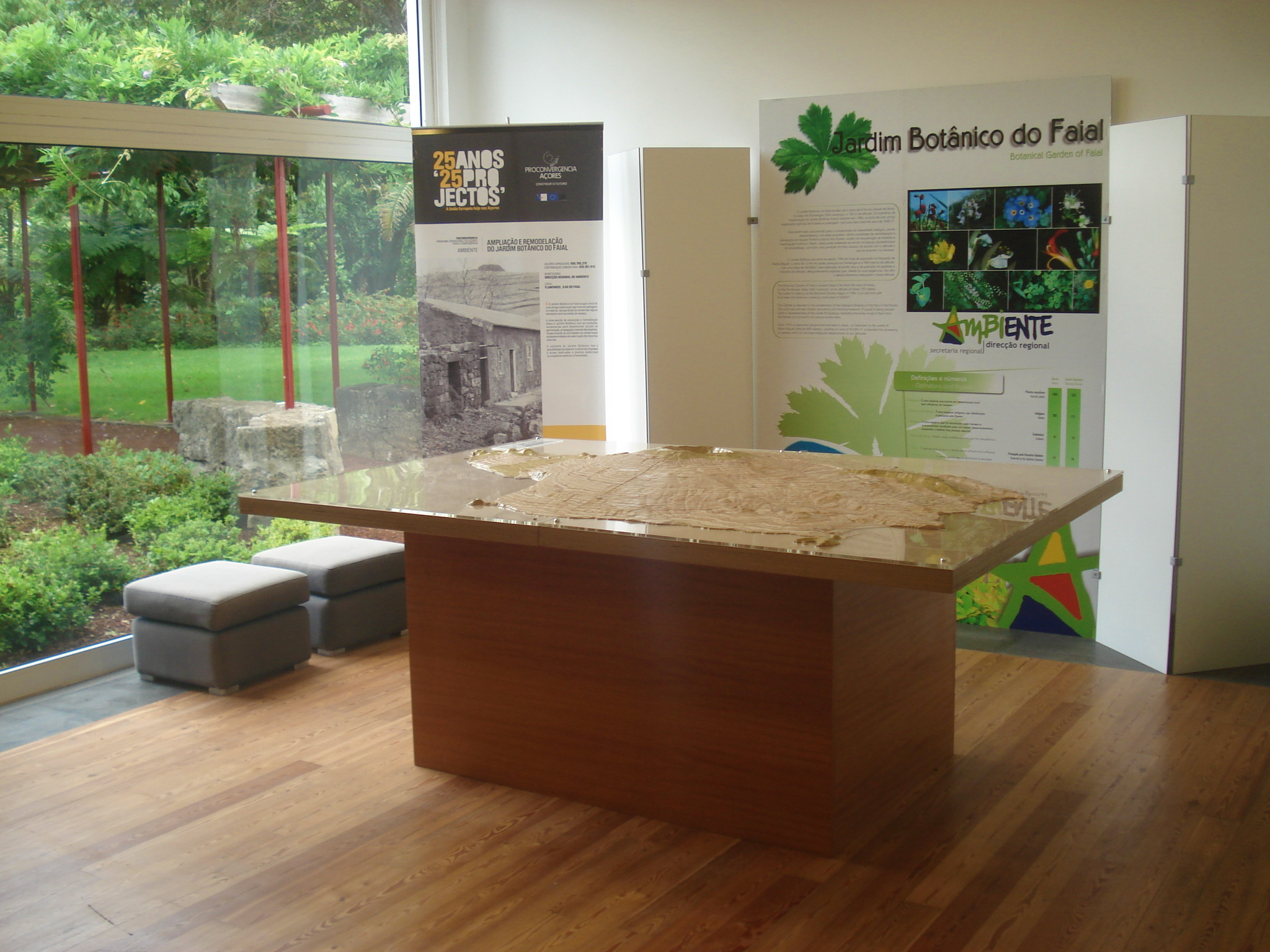 The exhibition hall of the Botanical Garden of Faial, civil parish of Flamengos, municipality of Horta (Azores), Portugal